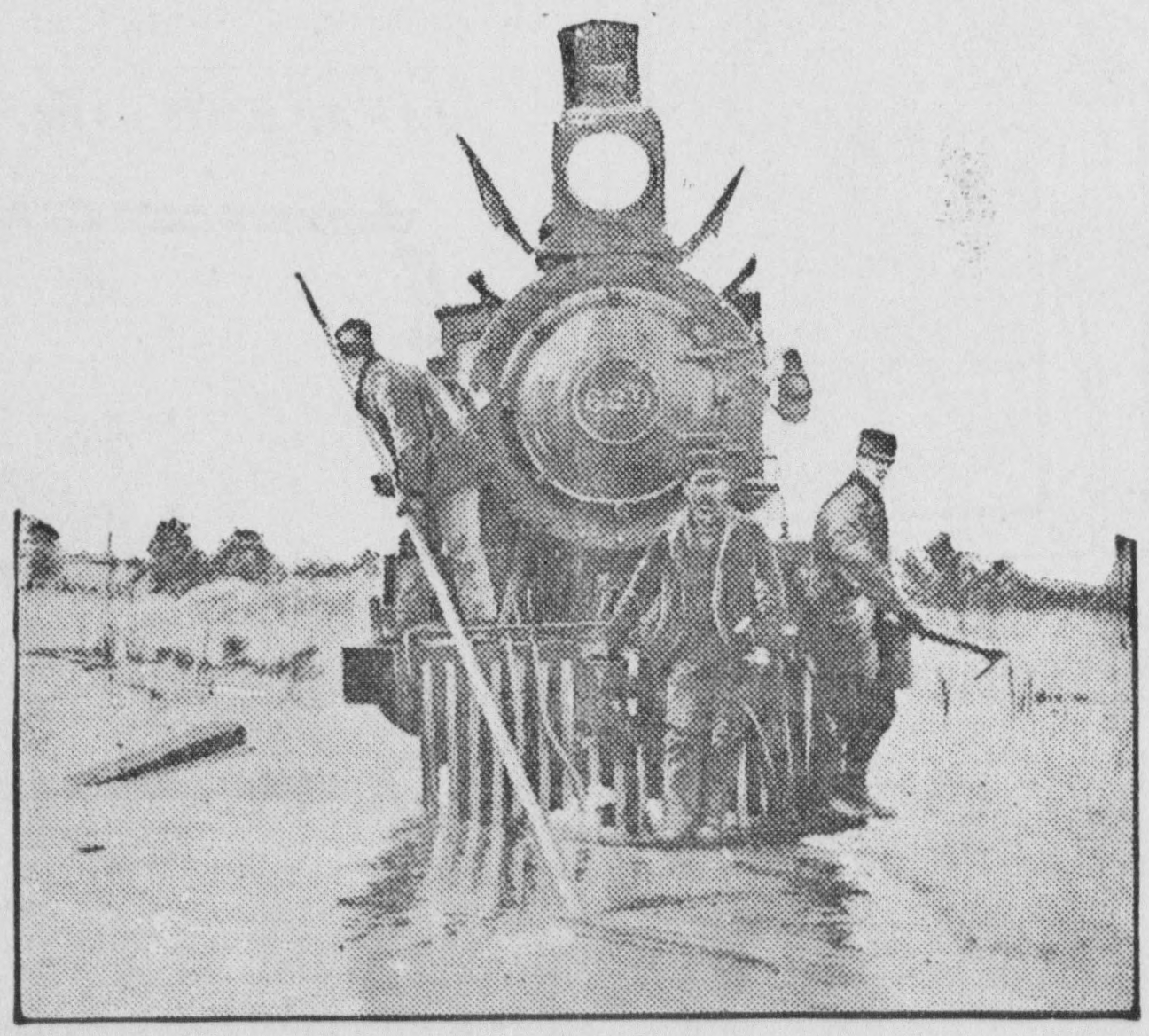 In late January 1904, the American state of Ohio underwent severe flooding. This locomotive, in the city of Akron, was partially submerged.